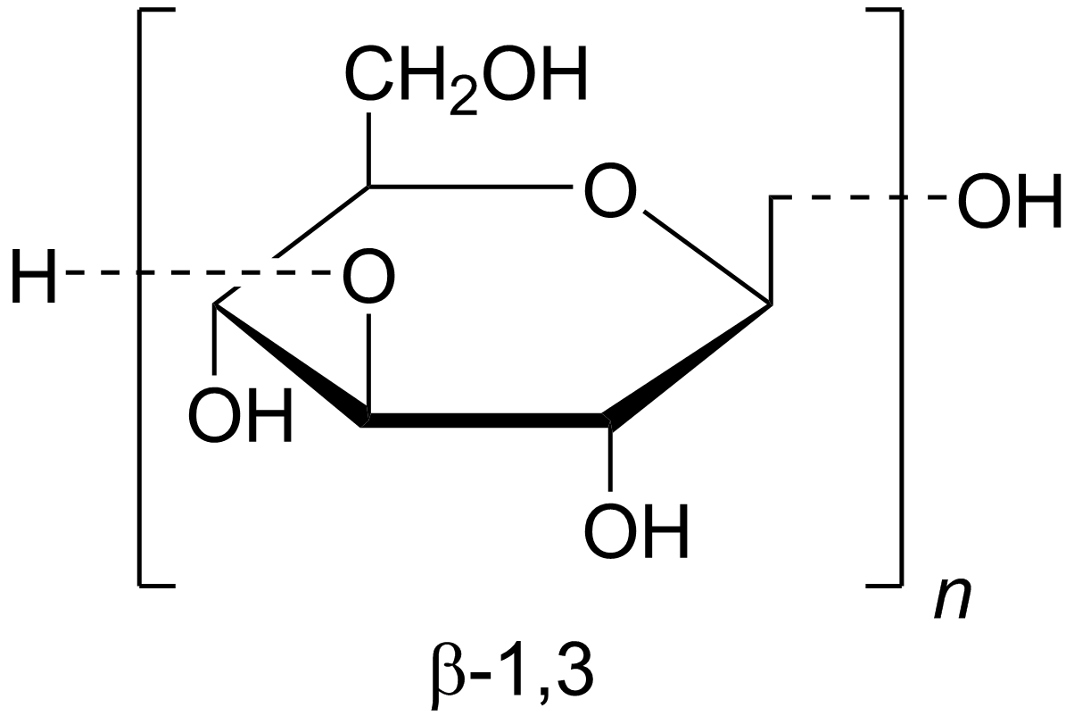 chemical structure of curdlan depicted as Haworth projection